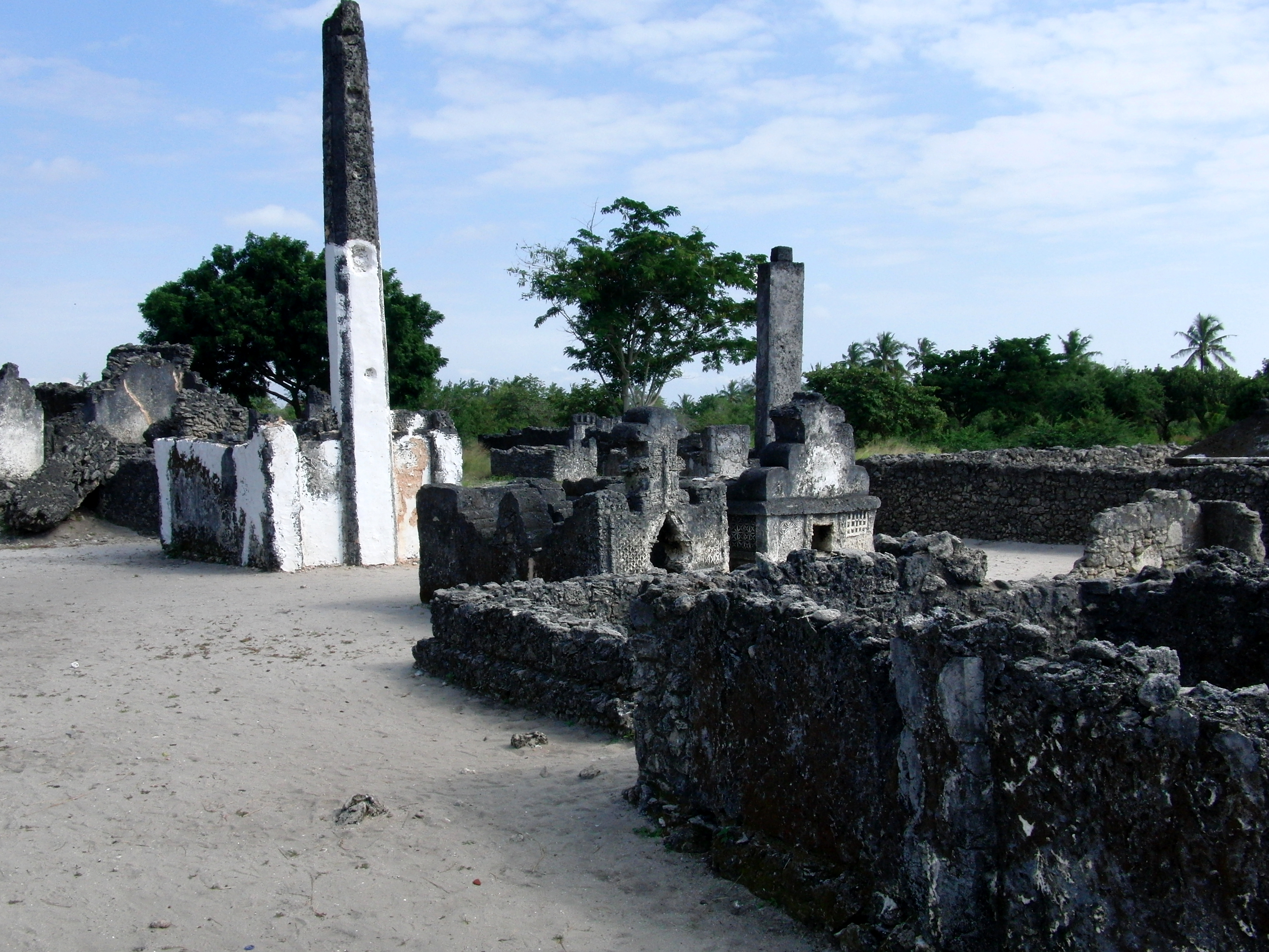 Kaole ruins near Bagamoyo, Tanzania including remains of an old mosque and some graves